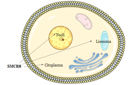 SMCR8 is located in the lysosomes, nucleus and cytoplasm of the cell.